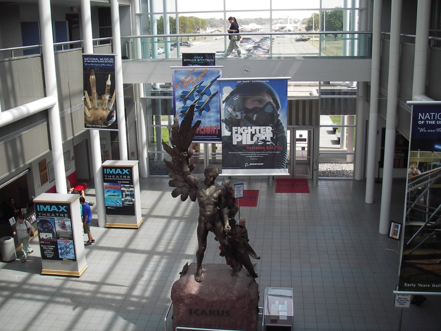 Lobby of the National Museum of the US Air Force.